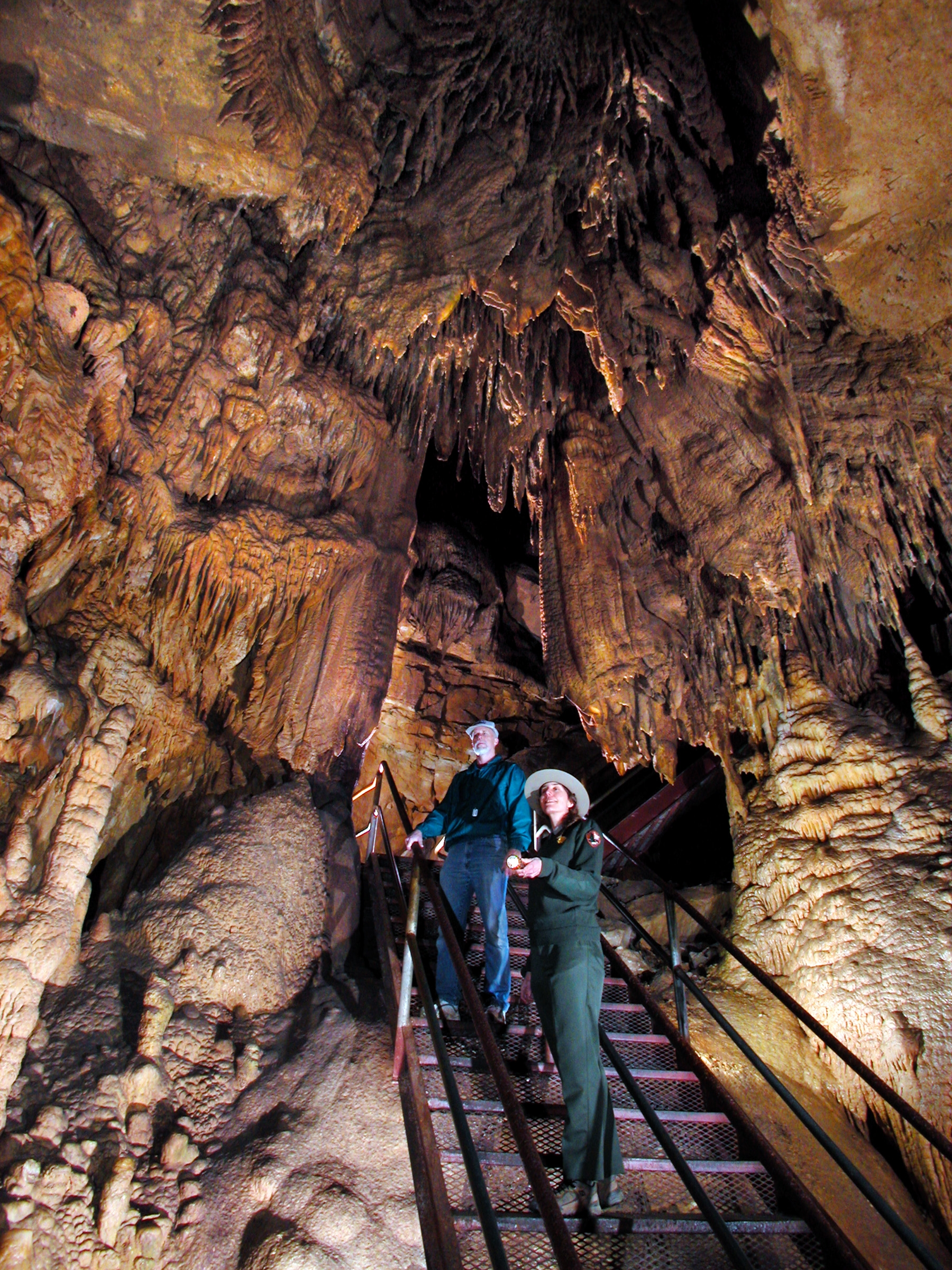 Location Mammoth Cave National Park Description Mammoth Cave National Park preserves the cave system and a part of the Green River valley and hilly country of south central Kentucky. This is the world's longest cave system, with more than 365 miles explored.